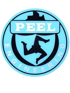 Logo of Peel Engineeing Company from Isle of Manx